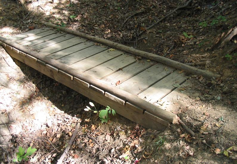 Simple wooden beam footbridge. Photo by Quadell